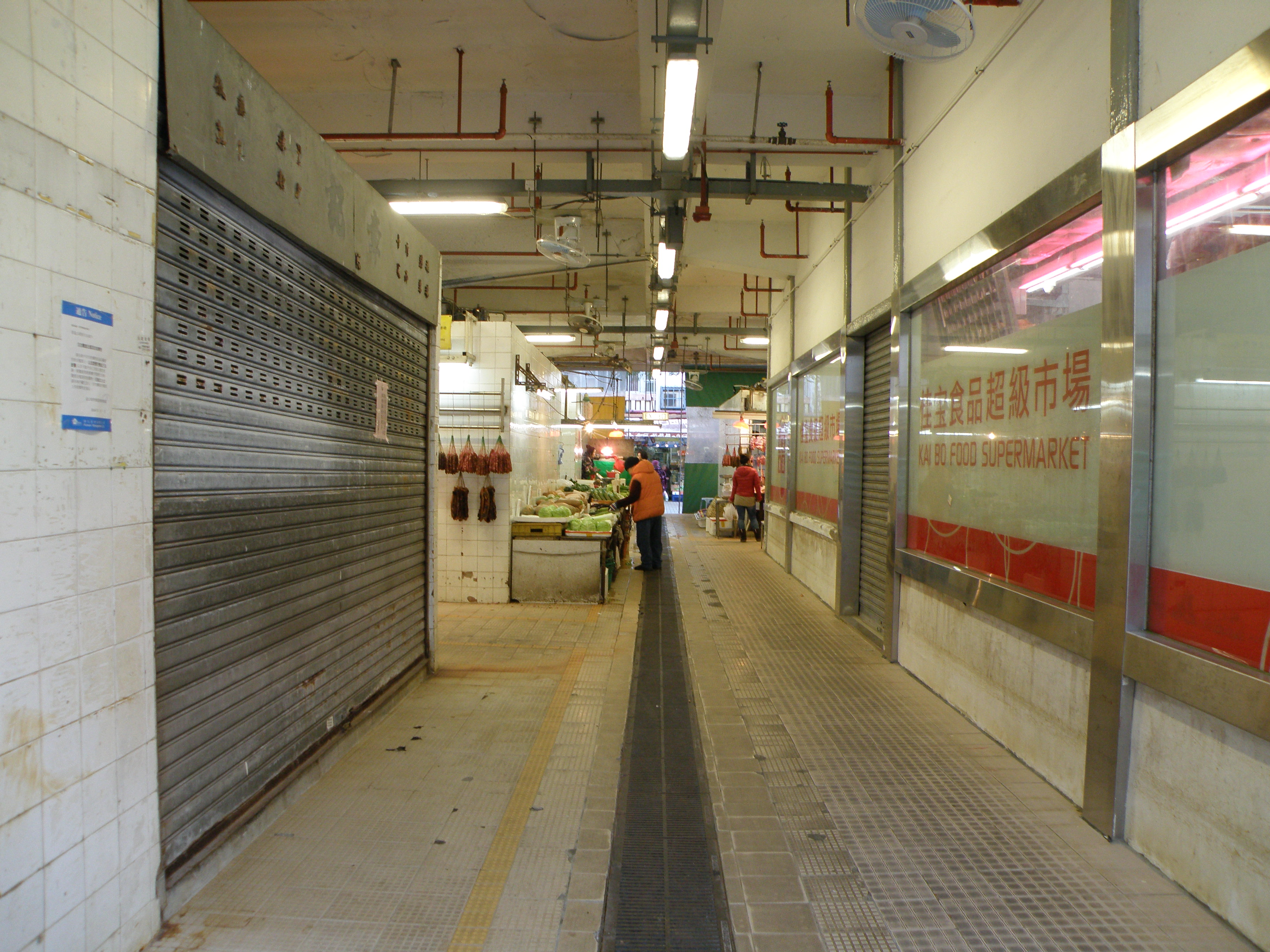 Fu Shan Market in Hammer Hill, Hong Kong.